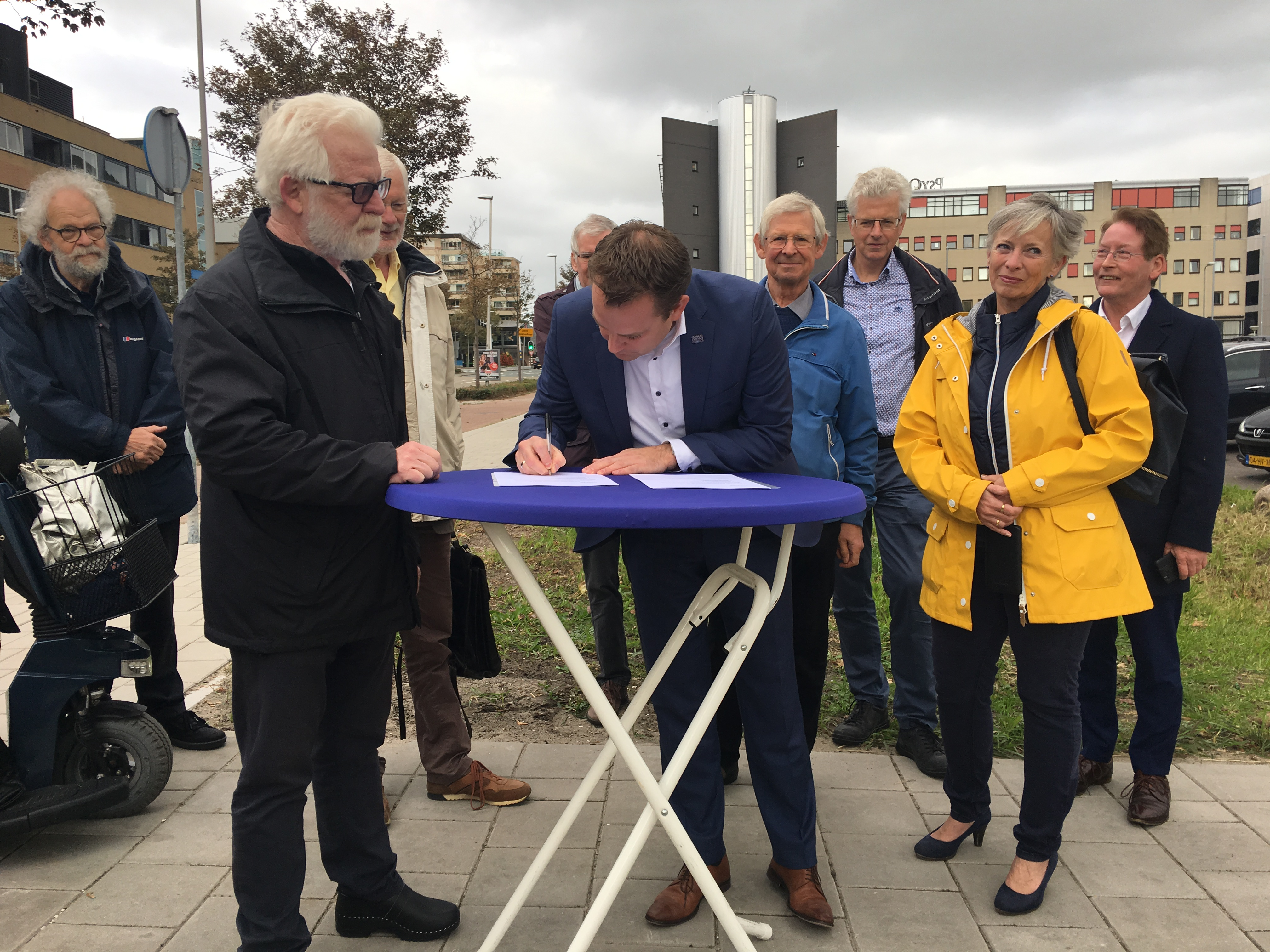 Charter for Walking in Zoetermeer